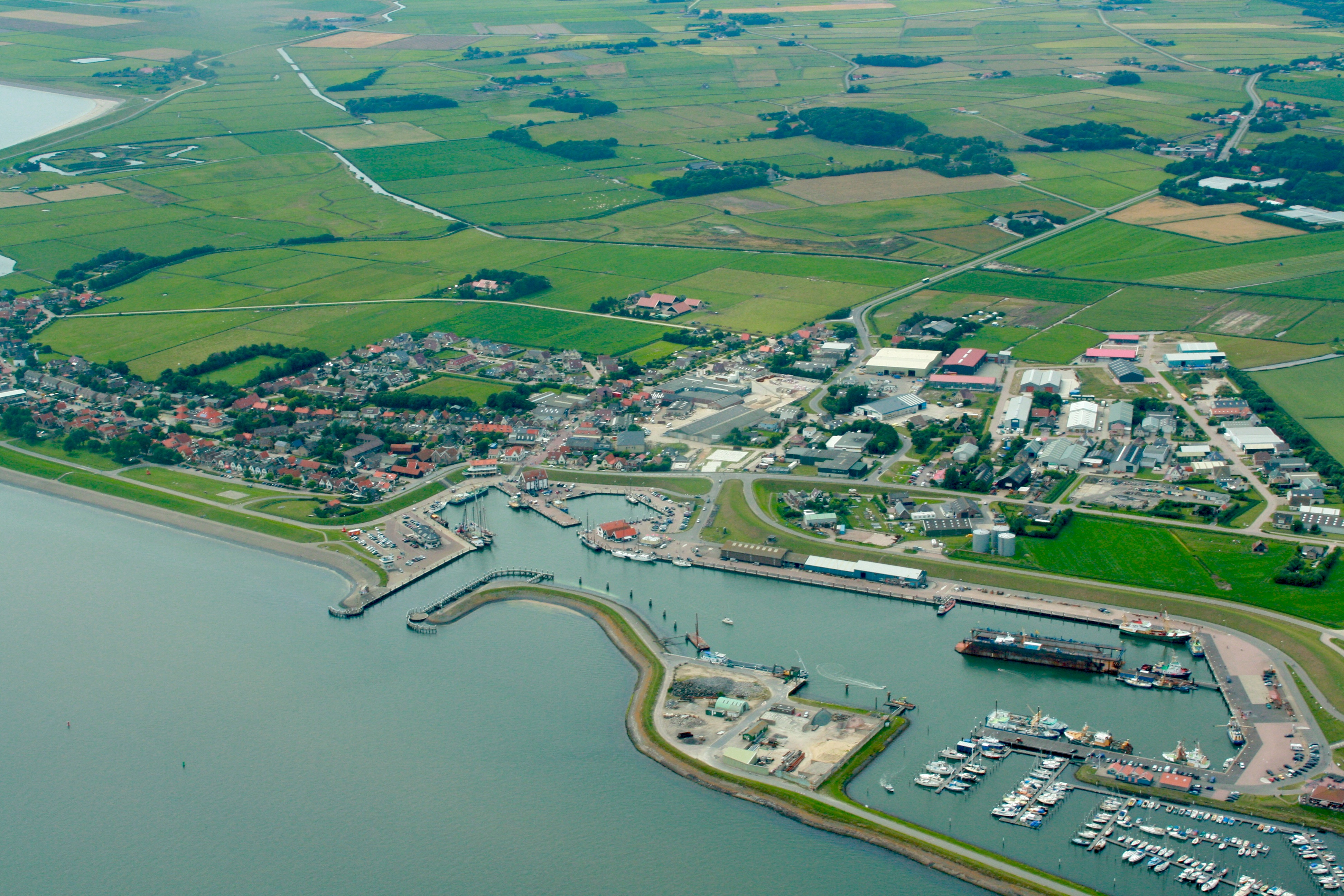 This is an aerial of Oudeschild, Texel, The Netherlands.